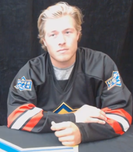 Boeser